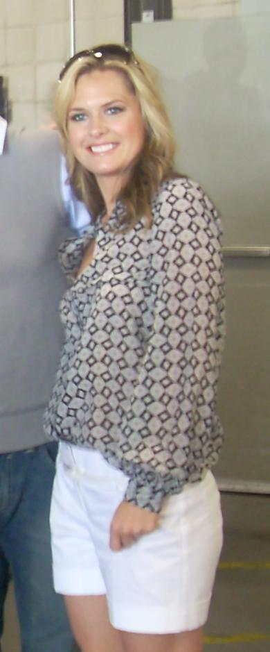 Actress Maggie Lawson – Comic-Con 2009, Backstage at the "Psych" Panel - San Diego - July 23, 2009.